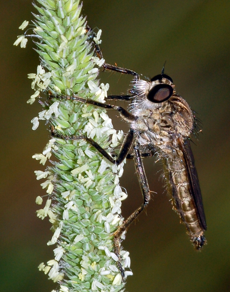 Philonicus_albiceps, male, Darmstadt, Germany